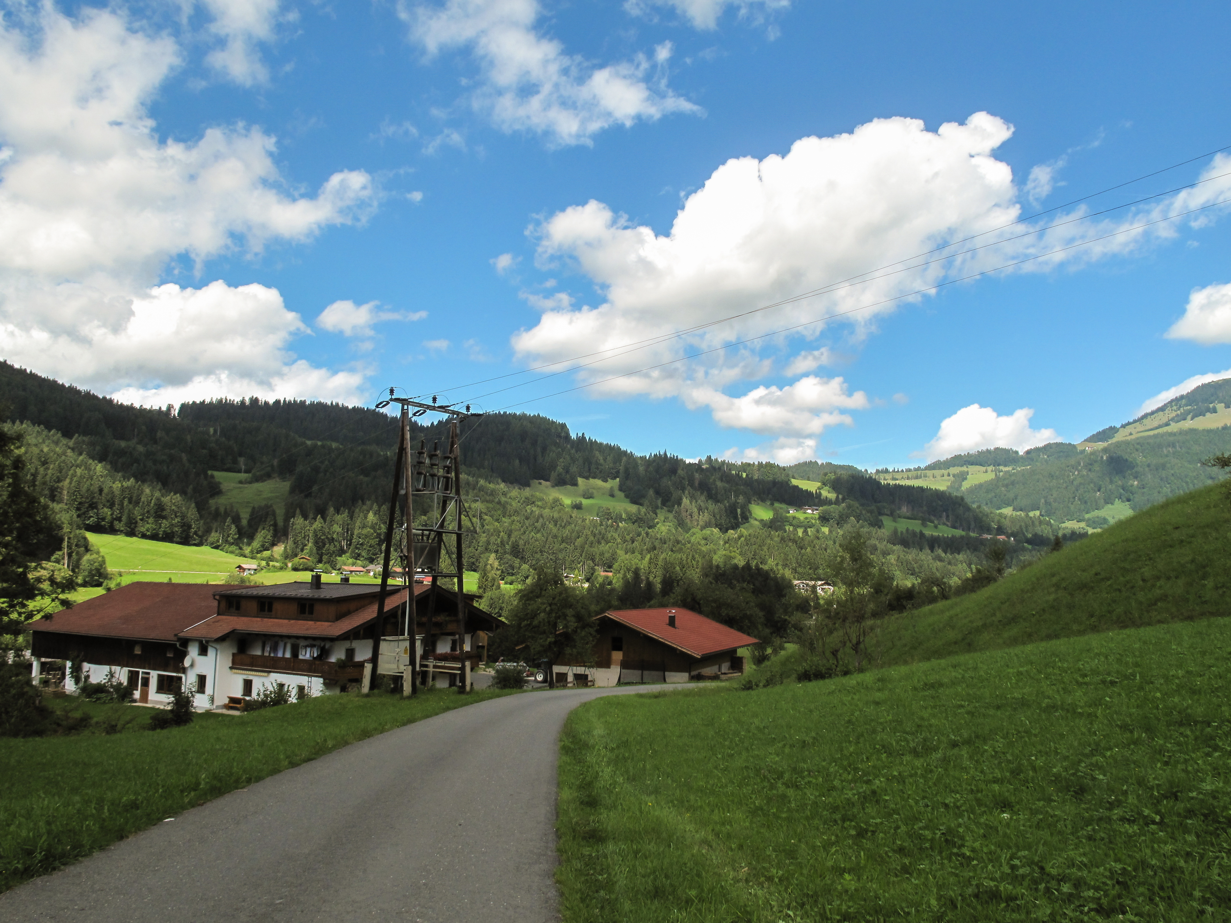 Ritzgraben, view to a street